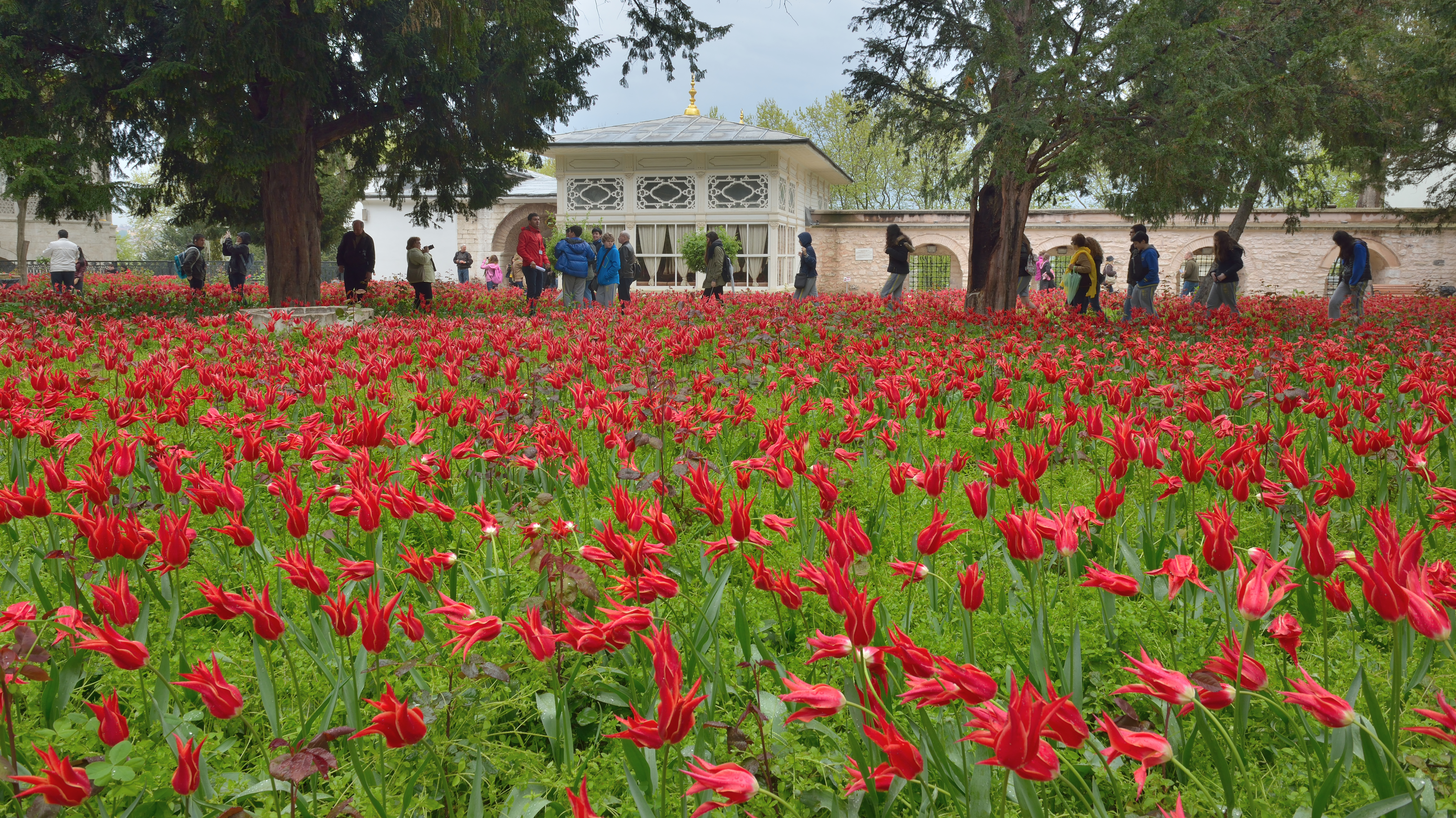 Tulip garden in the Topkapı Palace in Istanbul, Turkey.